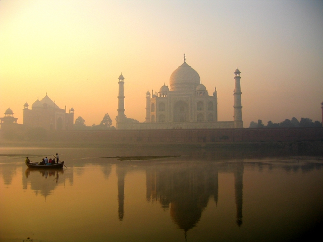 Taj Mahal reflection on Yamuna river, Agra.